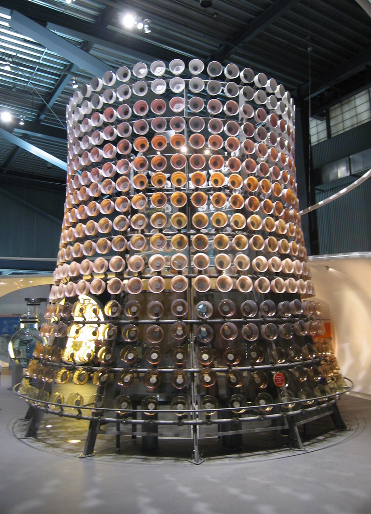 Tower consisting of 600 glass bowls in the Corning Museum of Glass, Corning, New York. Taken by Ohnoitsjamie on August 1, 2006